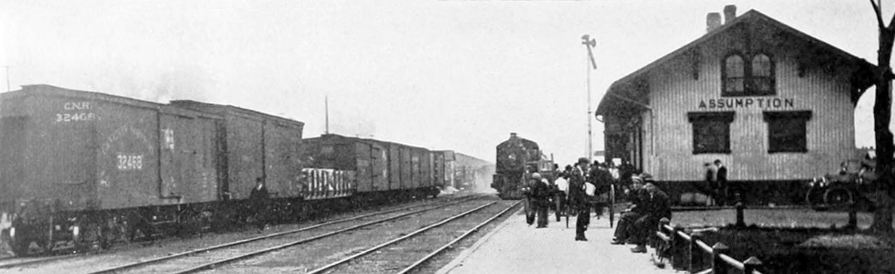 Illinois Central Railroad depot in Assumption, Illinois. Identifier: panaillinoissome00reid Title: Pana, Illinois : some luminous phases of its every-day life, present activities and future possibilities : a graphic sketch of a thriving city located on the lines of four transcontinental railroads, with water and coal, and all modern facilities requisite for the biggest of "big business" Year: 1913 (1910s) Authors: Reid, J. A. (James Allan) Subjects: Pana (Ill.) -- History Publisher: Pana, Ill. : James Allan Reid Text Appearing Before Image: The Catholic. The Churches of Oconee. The Presbyterian. P.AUIi FoRTV-FlVE. I Text Appearing After Image: llluiuib Ceniial Depot at Assumption. Illinois.This Road Certainly Maintains an Air of Success About its Depots in This Section.